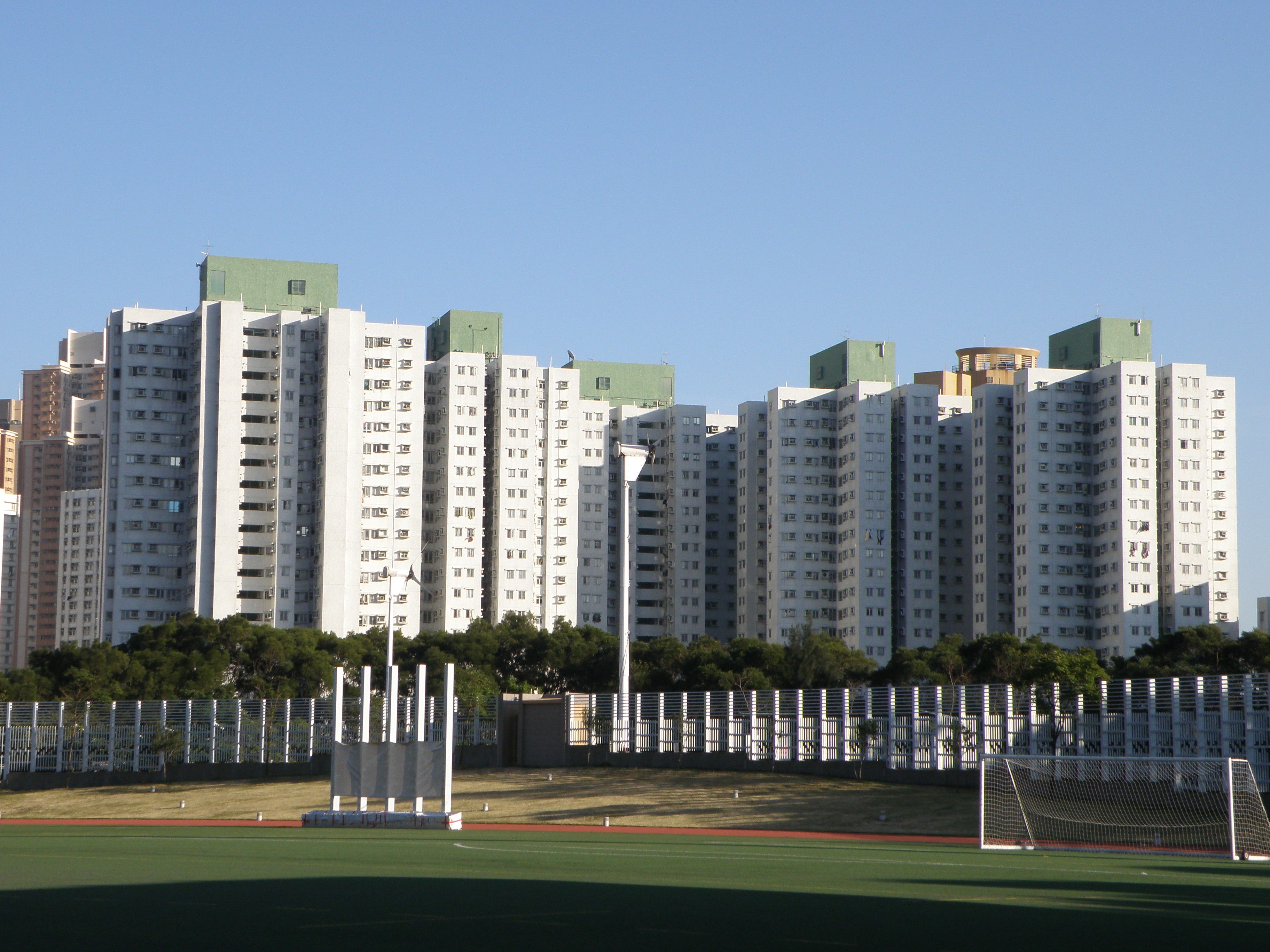 Grand View Garden in Hammer Hill, Hong Kong.